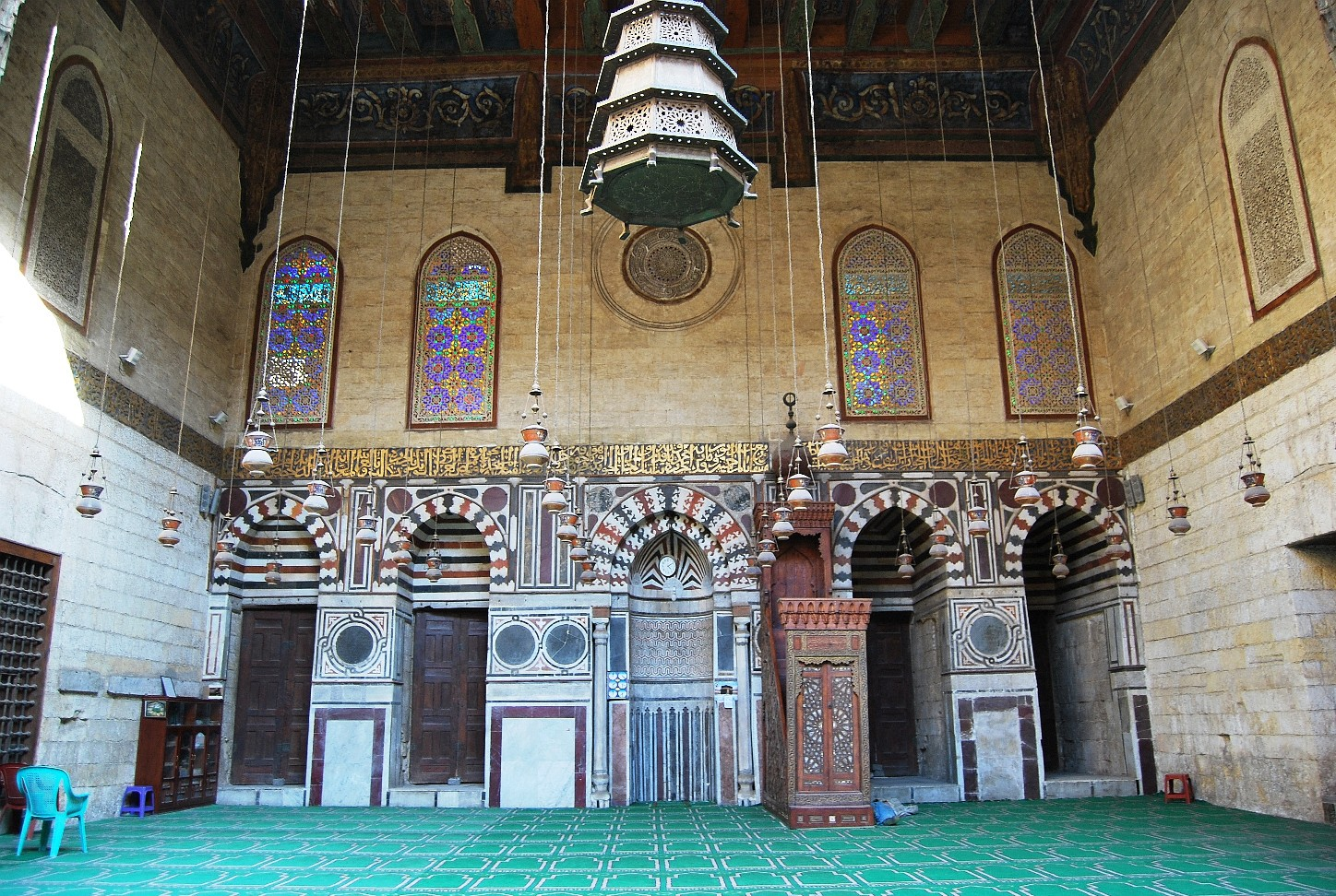 Qibla wall of the Sultan Ashref Al-Barsbay Mosque in Khan el-Khalili, Cairo.